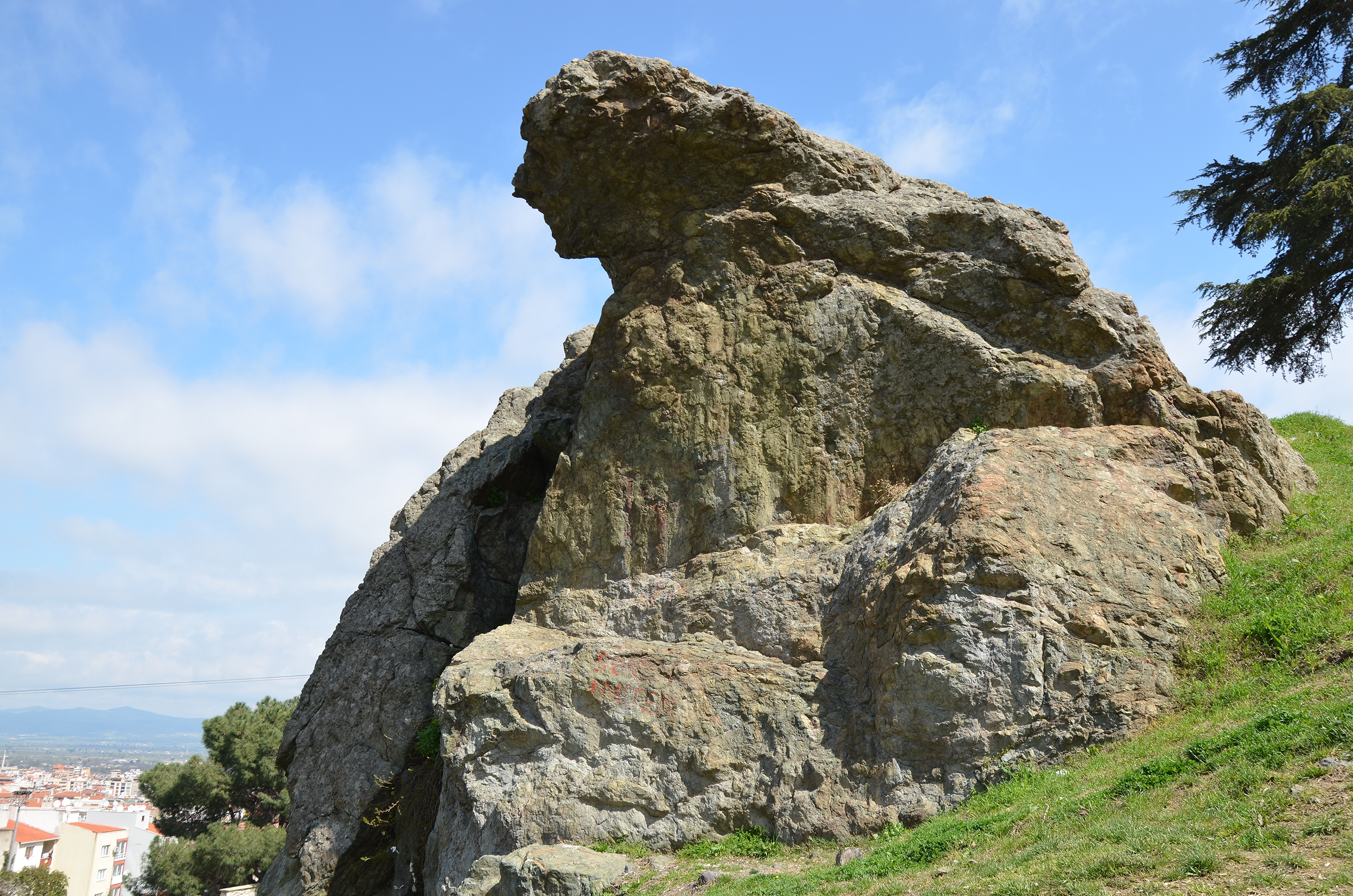 Weeping Rock, is a natural formation on Mount Sipylus in Manisa which associated with Niobe.